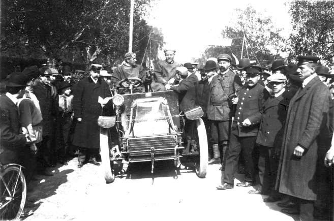 René Champoiseau Charron's car 30HP, second in Tsarskoye Selo, at the finish of the Moscow — Saint Petersburg race